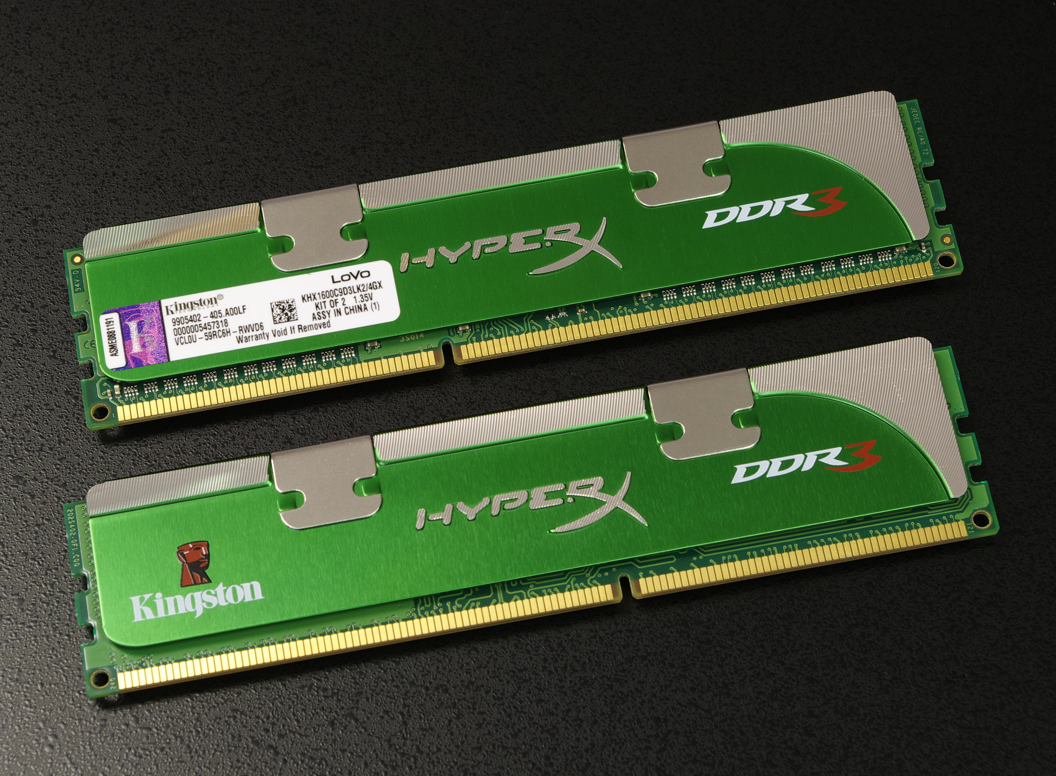 Low voltage DDR3-RAM KHX1600c9d3 with heatspreader